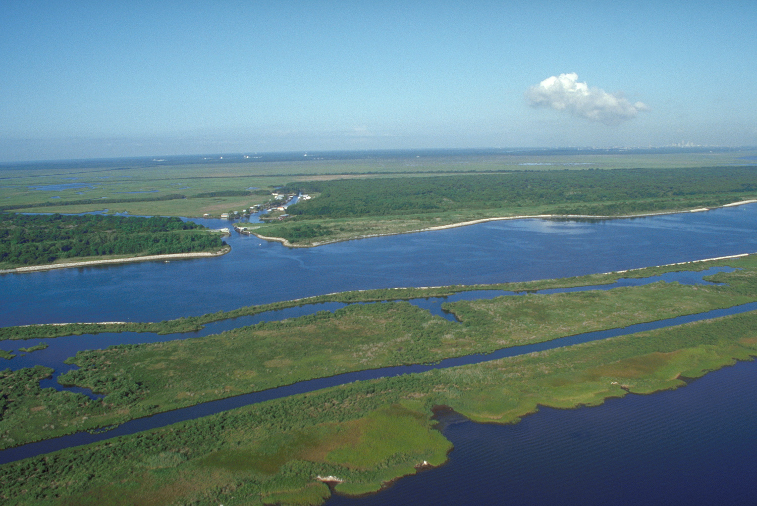 Mississippi River-Gulf Outlet MR-GO MRGO Rock Foreshore Protection Mile 58.5 to 46.8 and Bayou Bienvenue FCS. Mississippi River Gulf Outlet Mile 58.5 to 46.8, LA.